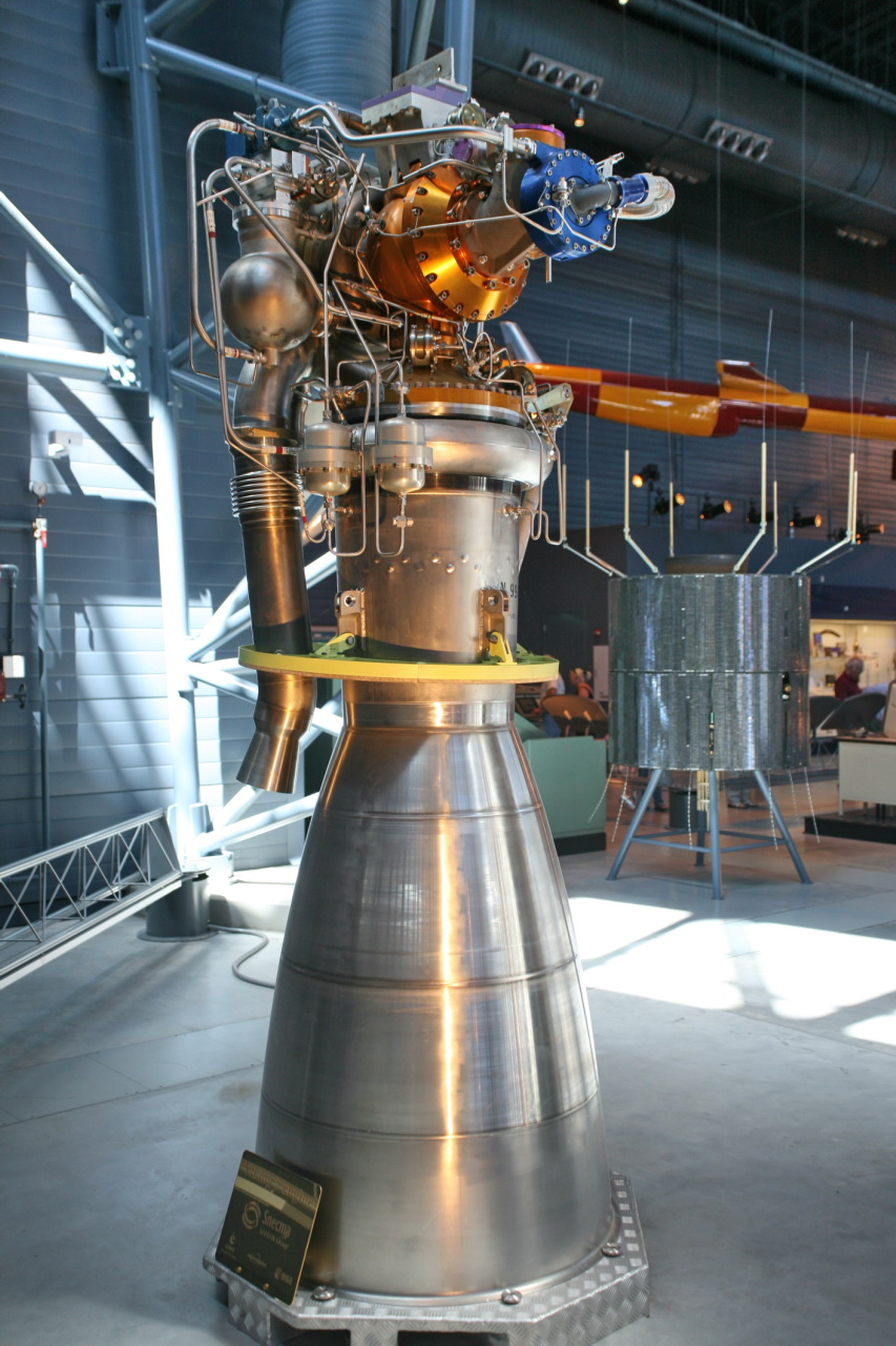 Rocket Engine, Liquid Fuel, Viking 5C: This is the Viking 5C engine. Four Viking 5C liquid-propellant rocket engines were used to propel the first stage of the Ariane 4 expendable launch vehicle used by the European Space Agency from 1990 to 2003. A consortium of six countries, France, Germany, Spain, Belgium, Sweden, and Italy, designed and manufactured this engine. It uses a form of transpiration or "sweat cooling." In sweat cooling, a coolant (the fuel) is injected uniformly and continuously over the internal wall of the nozzle by using a porous wall material. The developer of this technique for the Viking was Heinz Bringer who had worked on a similar system during the development of the German V-2 rocket of World War II. This object was donated to the Smithsonian in 2006 by SAFRAN.